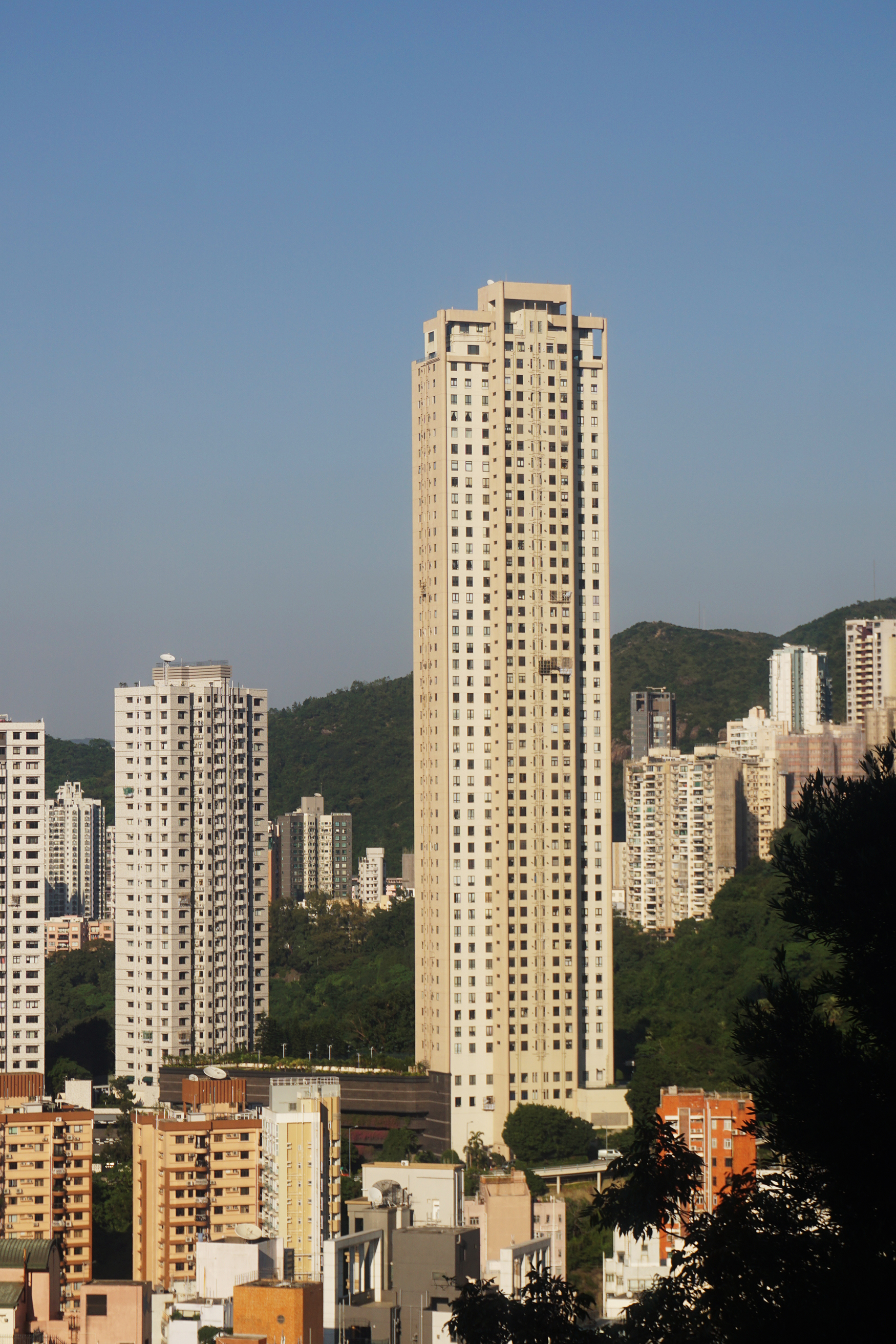 Broadview Villa, Hong Kong.